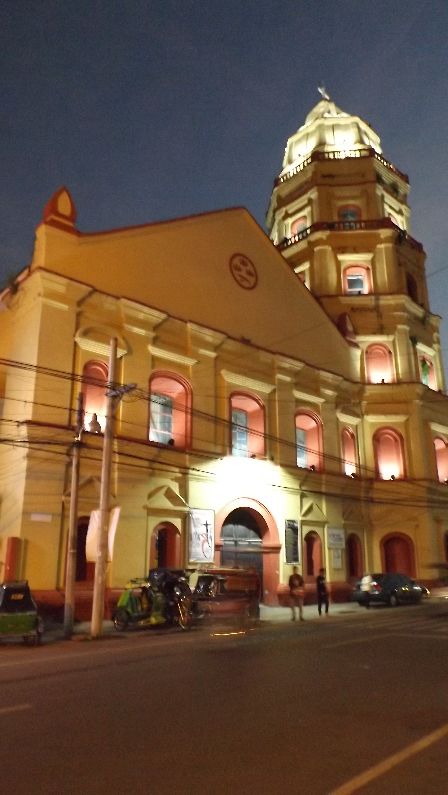 Church Facade